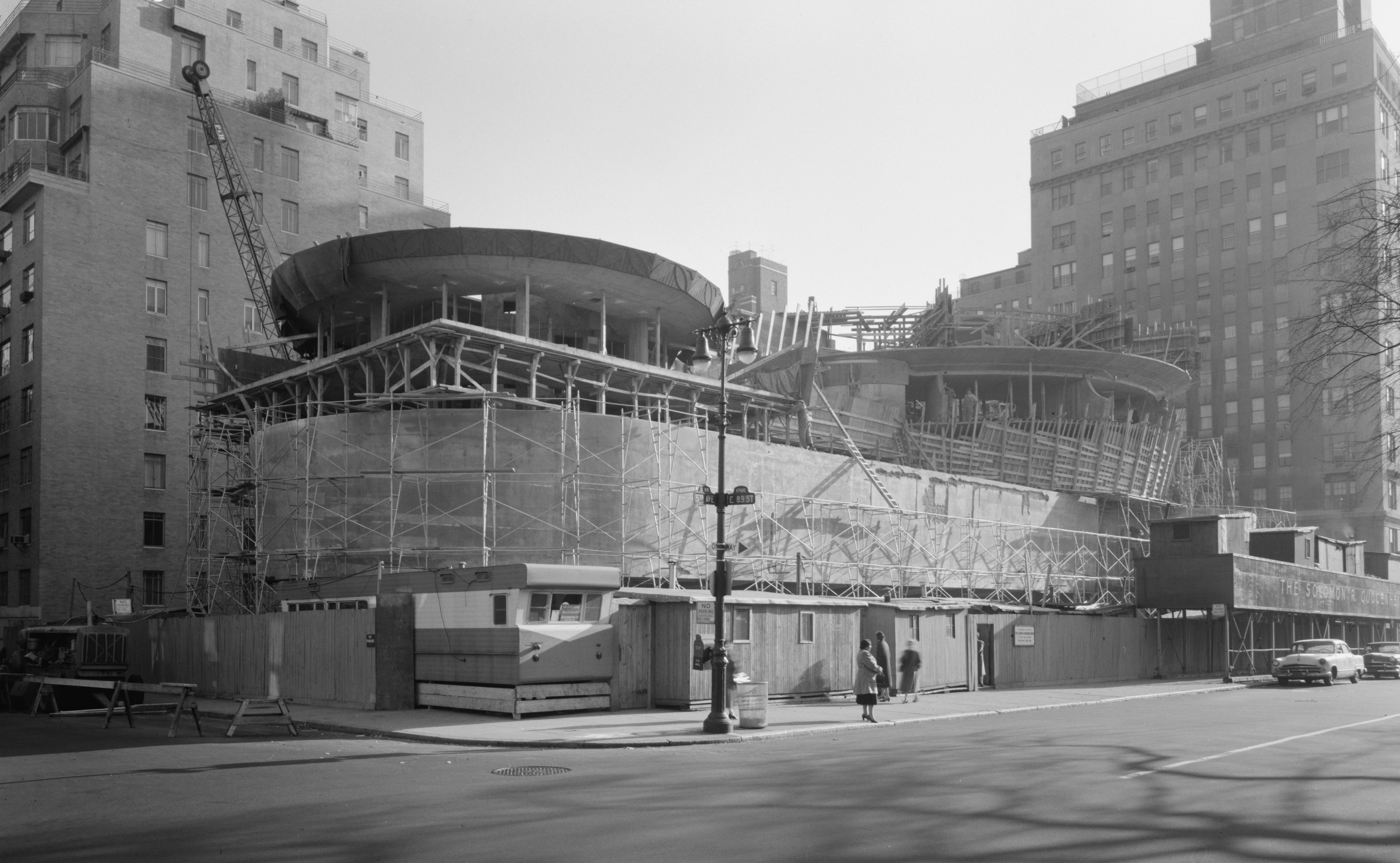 Guggenheim Museum, 88th St. & 5th Ave., New York City. Under construction II